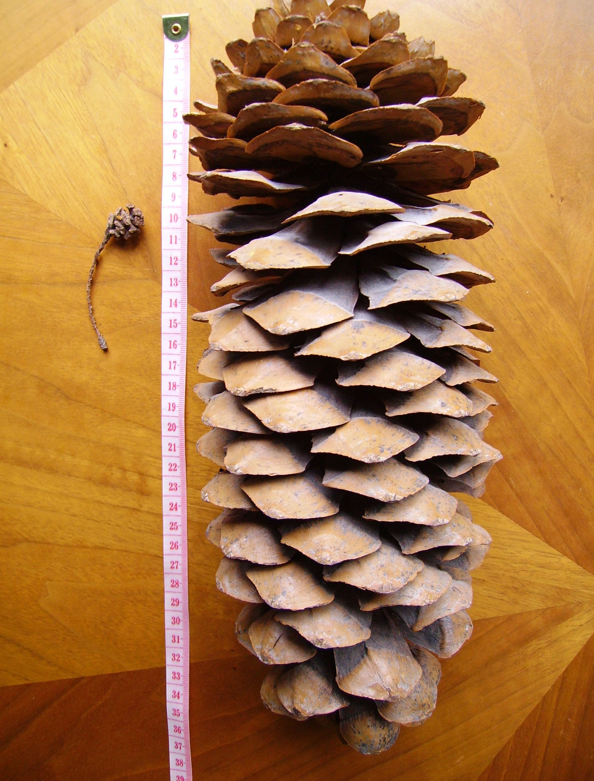 Conifer cones: Sequoia sempervirens (left), Pinus lambertiana (right)